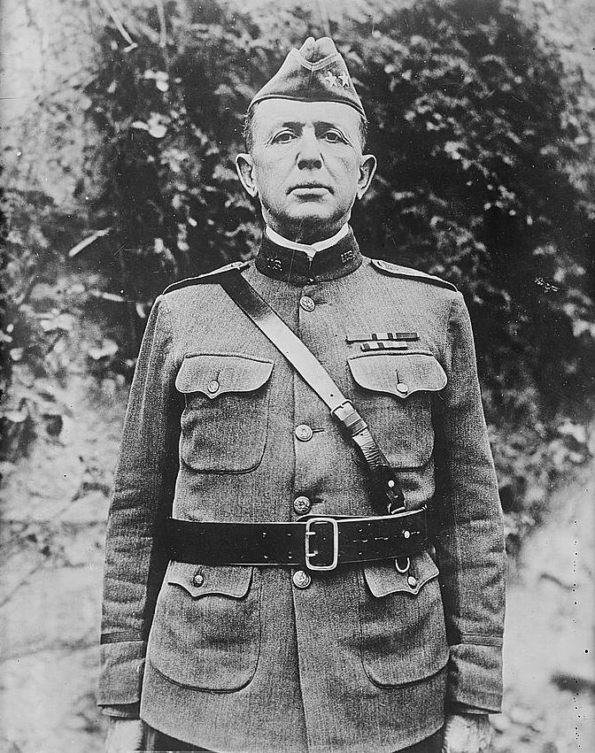 Major General Mark L. Hersey.